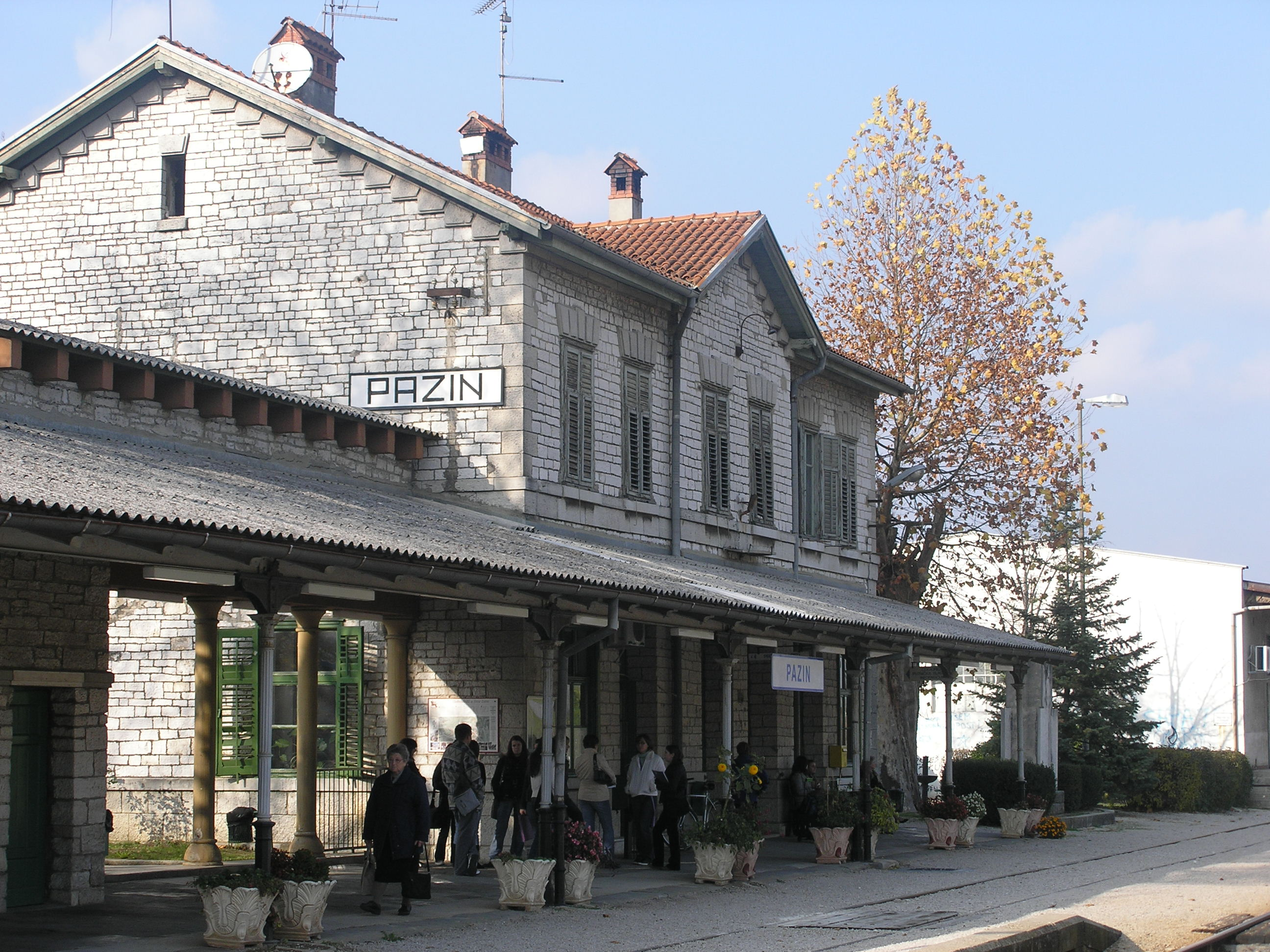 Zadar railway station, Croatia (with HŽ 7122 015)